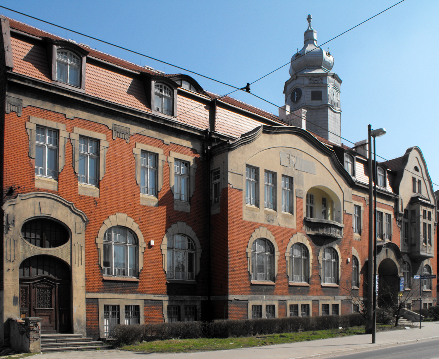 Town hall of Mikulczyce